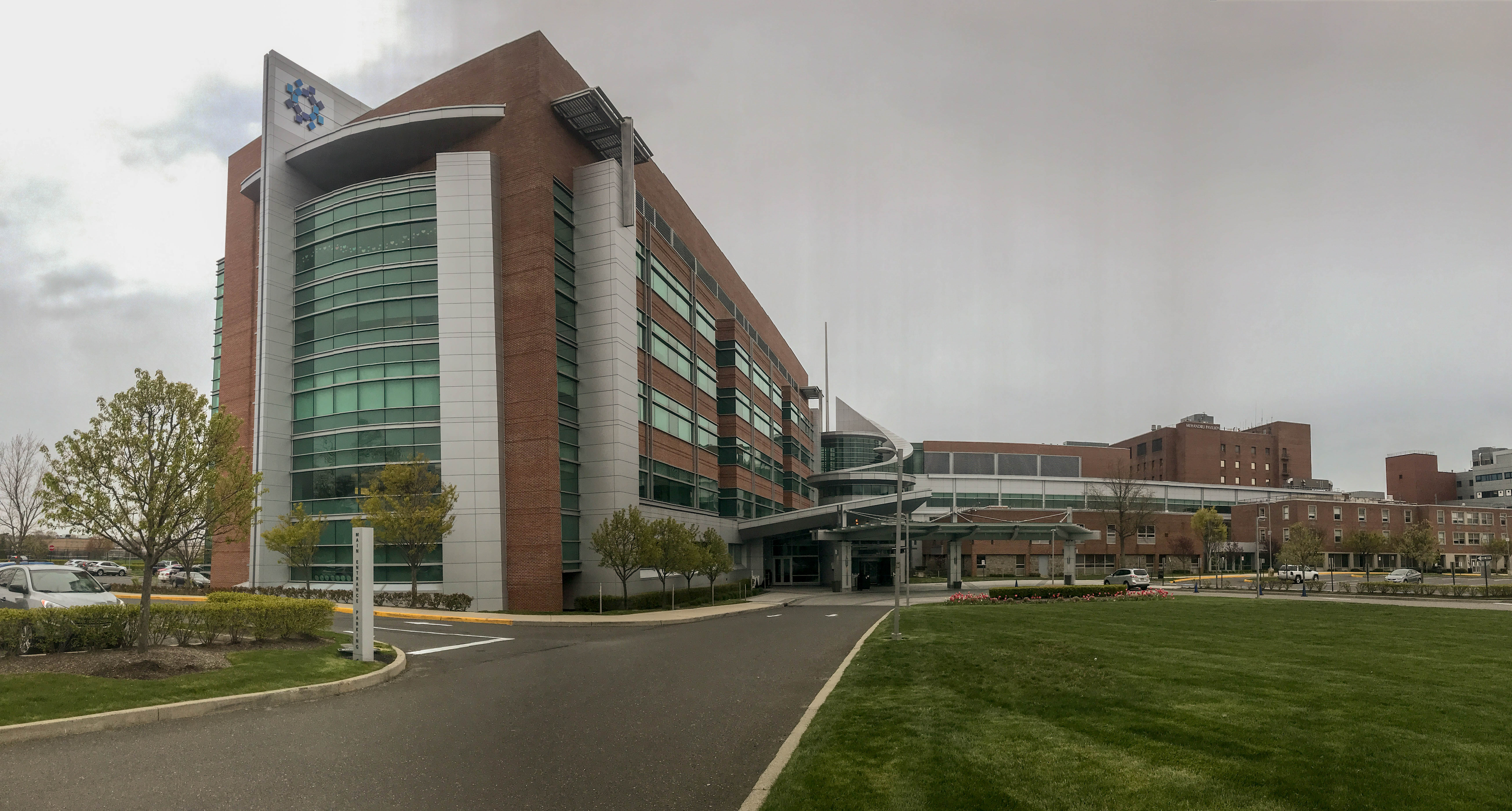 Panorama of entrance to JSUMC.